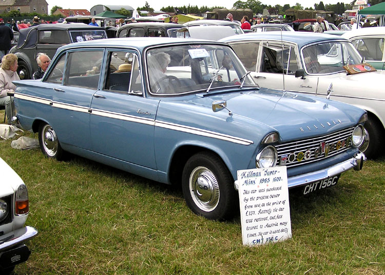 1965 Hillman Super Minx 1600cc at Kemble Airshow, Kemble, Gloucestershire, England.